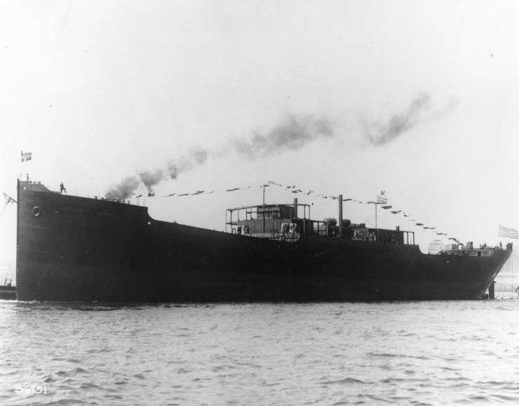 Commercial cargo ship SS Jeannette Skinner immediately after her launching at the Skinner and Eddy Corporation shipyard at Seattle, Washington. She later served in the US Navy as USS Jeannette Skinner (ID-1321).